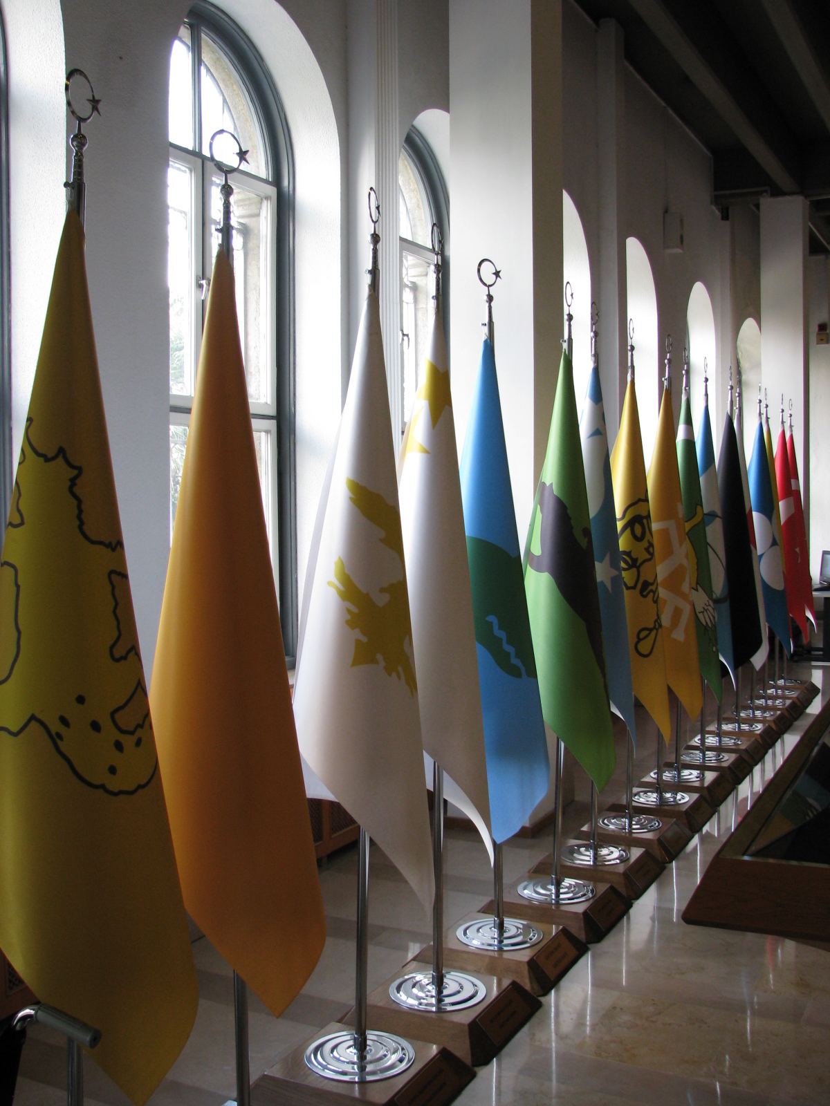 Flags of the Sixteen Great Turkish Empires on displey in Istanbul Military Museum